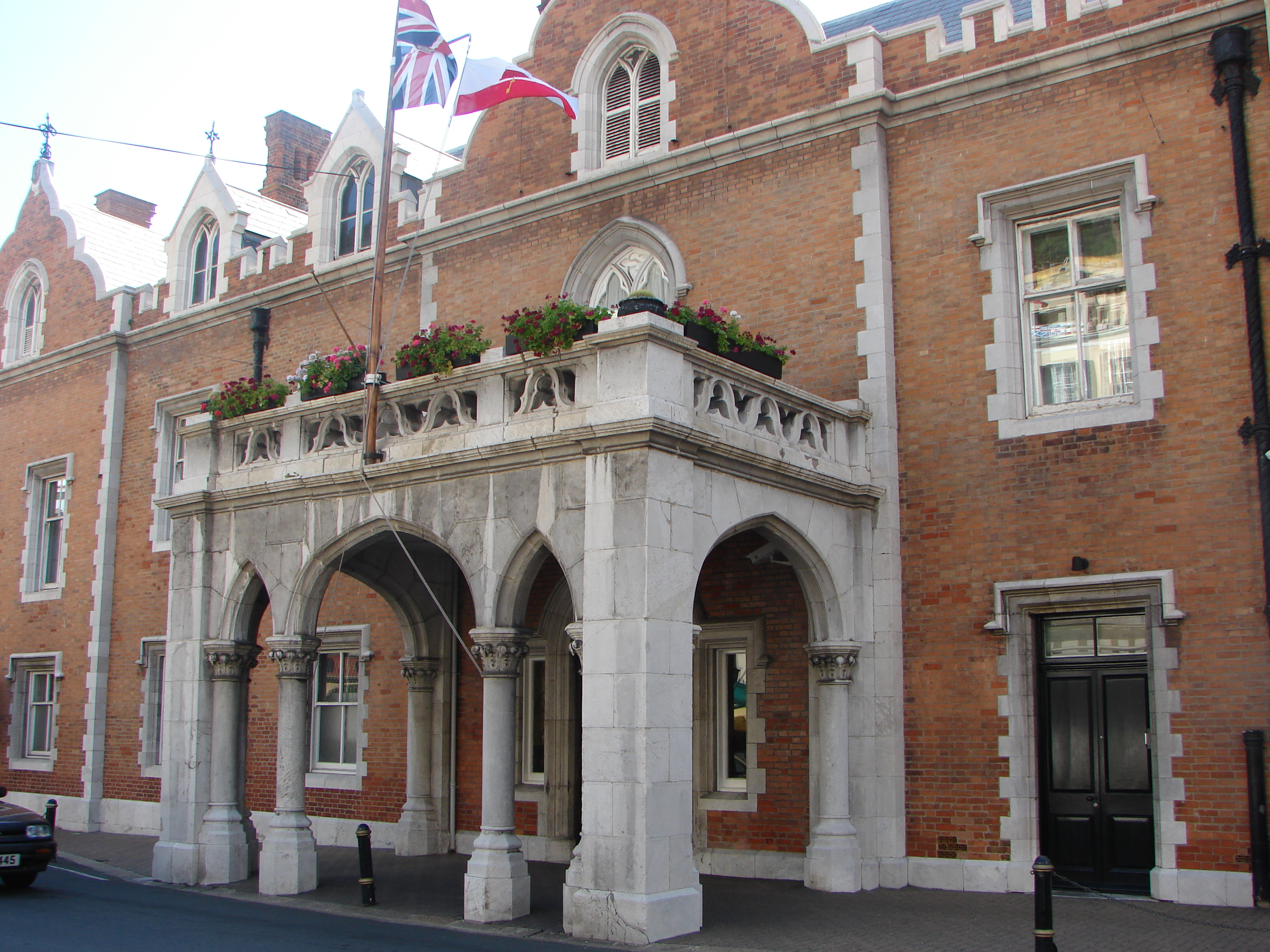 The Convent, Gibraltar